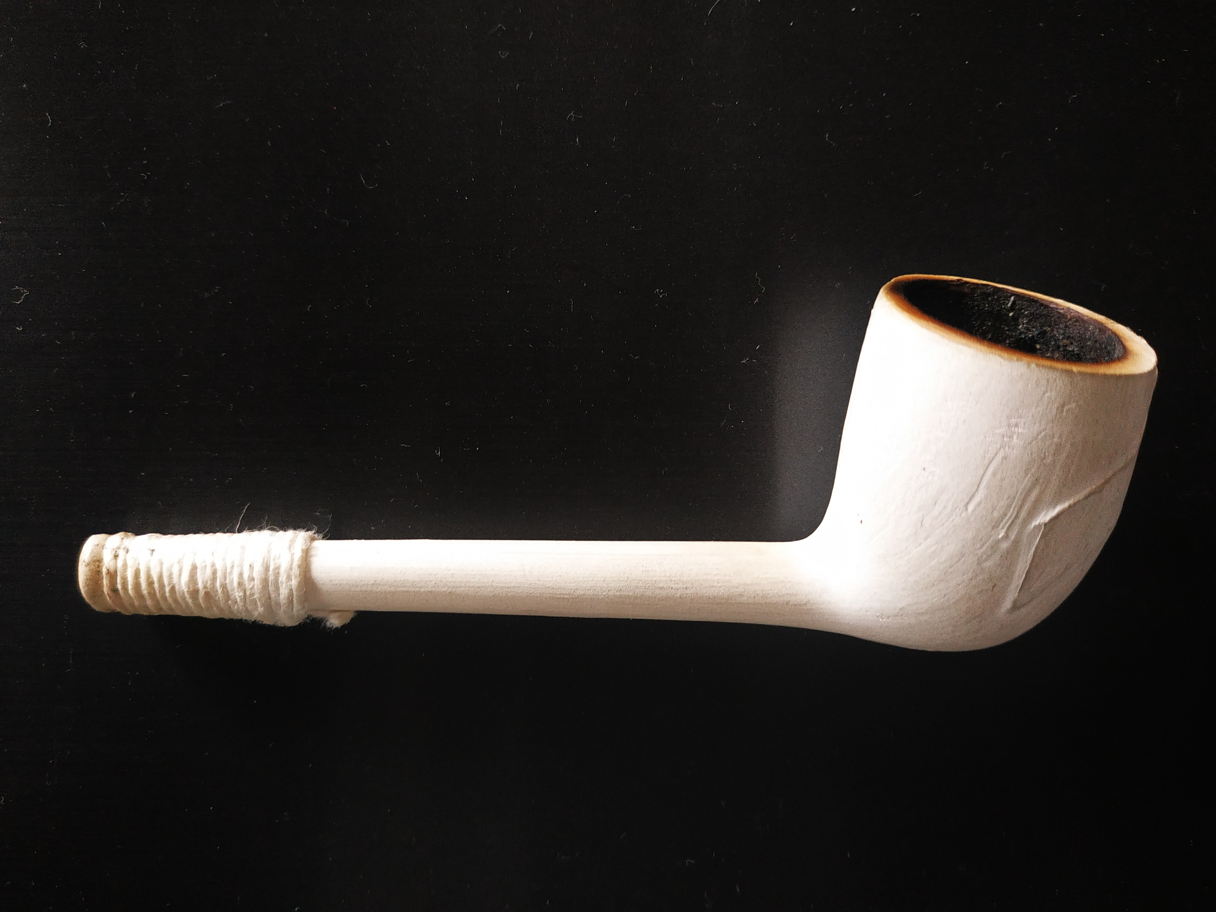 particular type of pipe called "clay pipe"